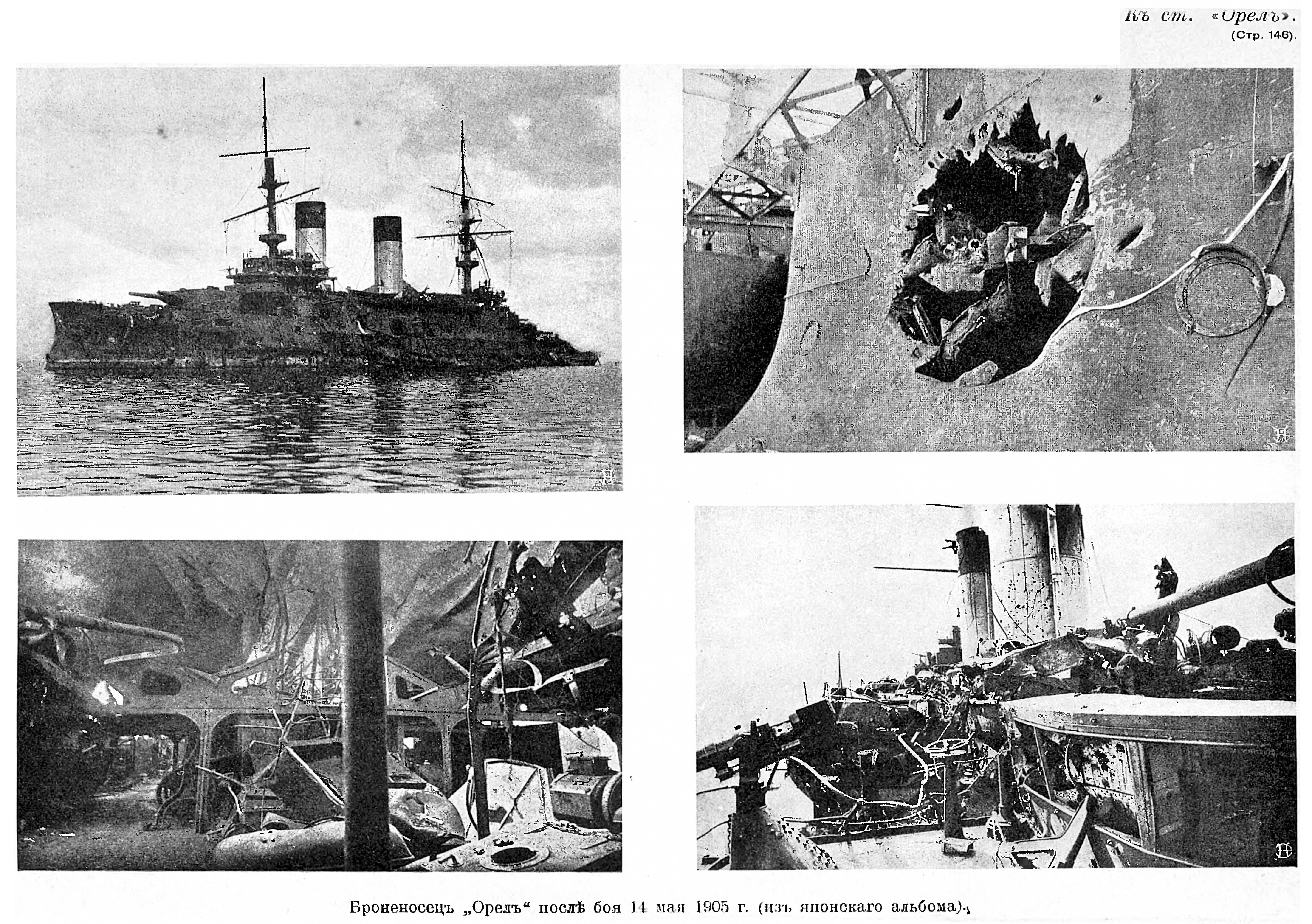 Oryol (Russian: Орёл) was a Borodino-class battleship built for the Russian Imperial Navy in the first decade of the 20th century. The ship was completed a few months before the start of the Russo-Japanese War in February 1904 and was assigned to the Second Pacific Squadron sent to the Far East six months later to break the Japanese blockade of Port Arthur. The Japanese captured the port while the squadron was in transit and their destination was changed to Vladivostok. Oryol was badly damaged during the Battle of Tsushima in May 1905 and surrendered to the Japanese who put her into service under the name of Iwami (Japanese: 石見).